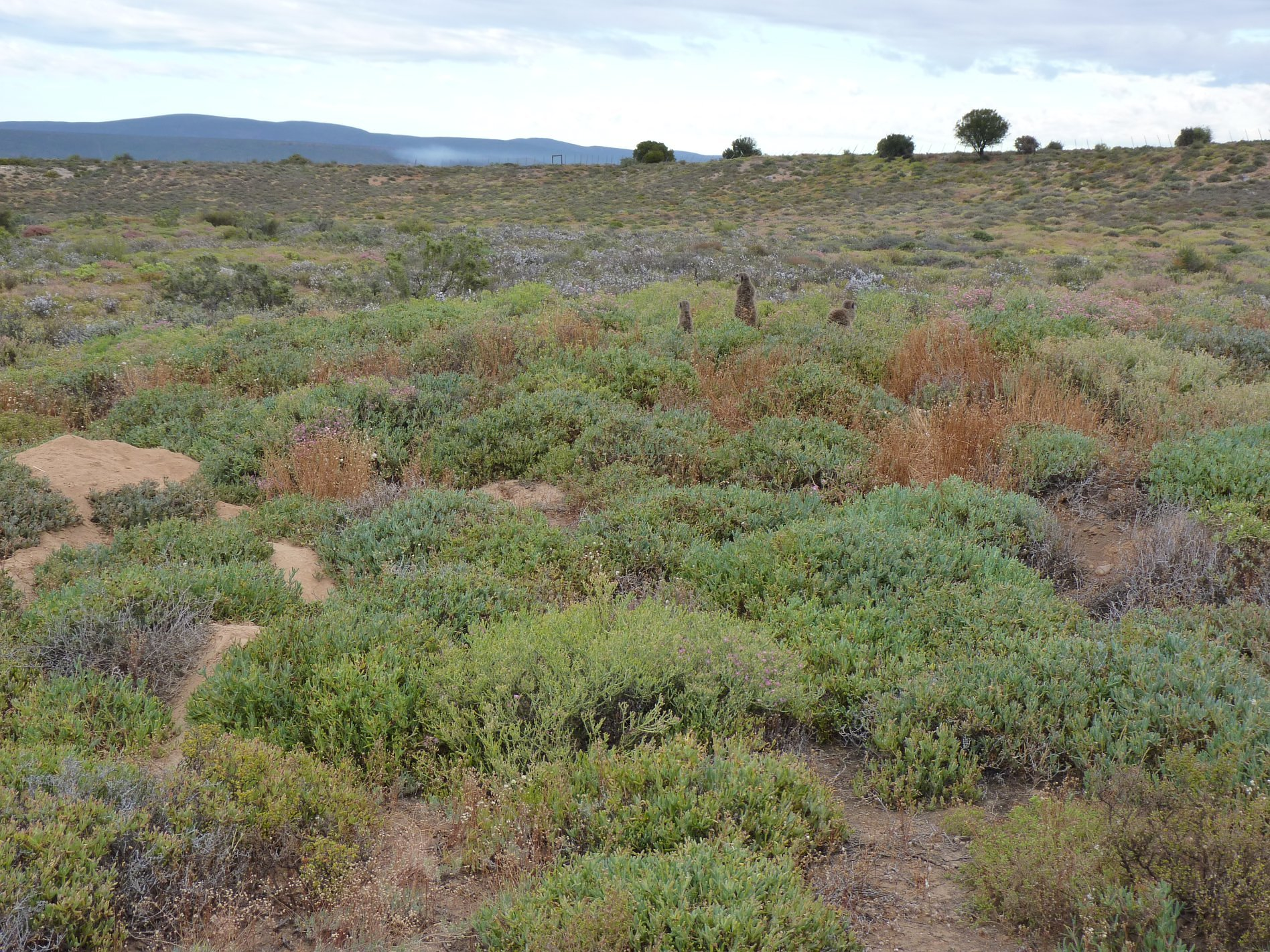 Meerkats (Suricata suricatta)in a natural habitat (Little Karroo semi-desert, South Africa)